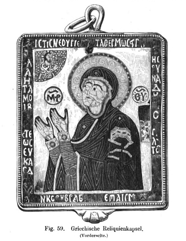 Woodcut illustration of a small reliquary with an enamel portrait of a Madonna (11th c.?) in the Treasury of the Basilica of Our lady in Maastricht, the Netherlands. One of 66 illustrations in Bock & Willemsen's 1872 publication on the church treasures of St. Servatius and Our Lady, both in Maastricht.